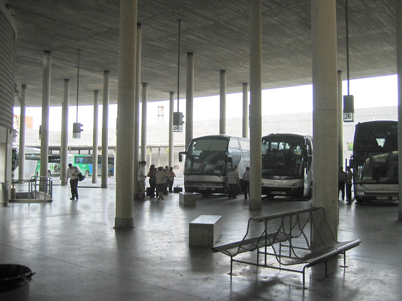 Buses in the Bus Station of Córdoba, Spain.